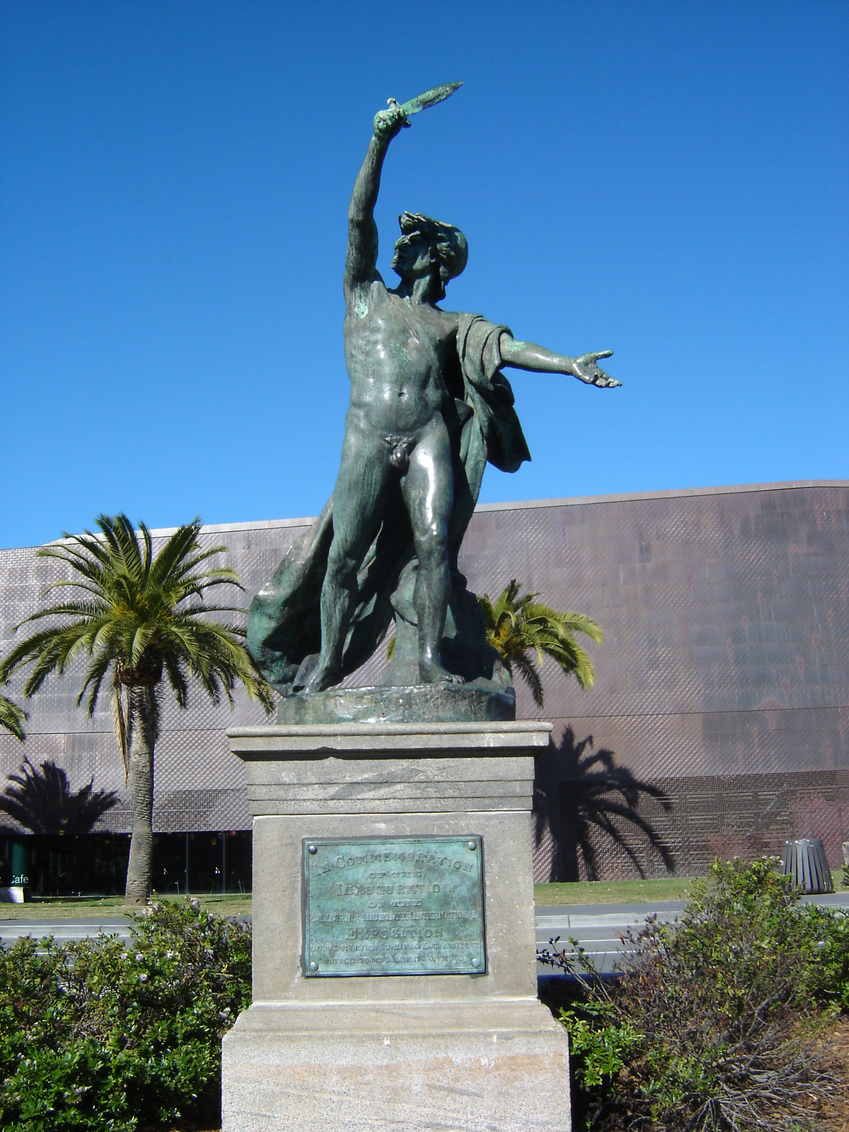 Roman Gladiator statue — by Guillaume Geefs, 19th-century. In the Music Concourse of Golden Gate Park, in San Francisco, California.